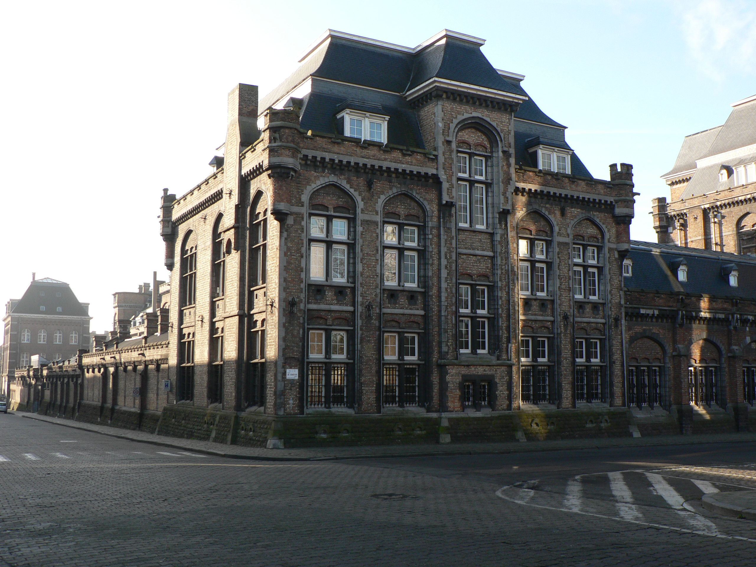 Military Medical Division Building